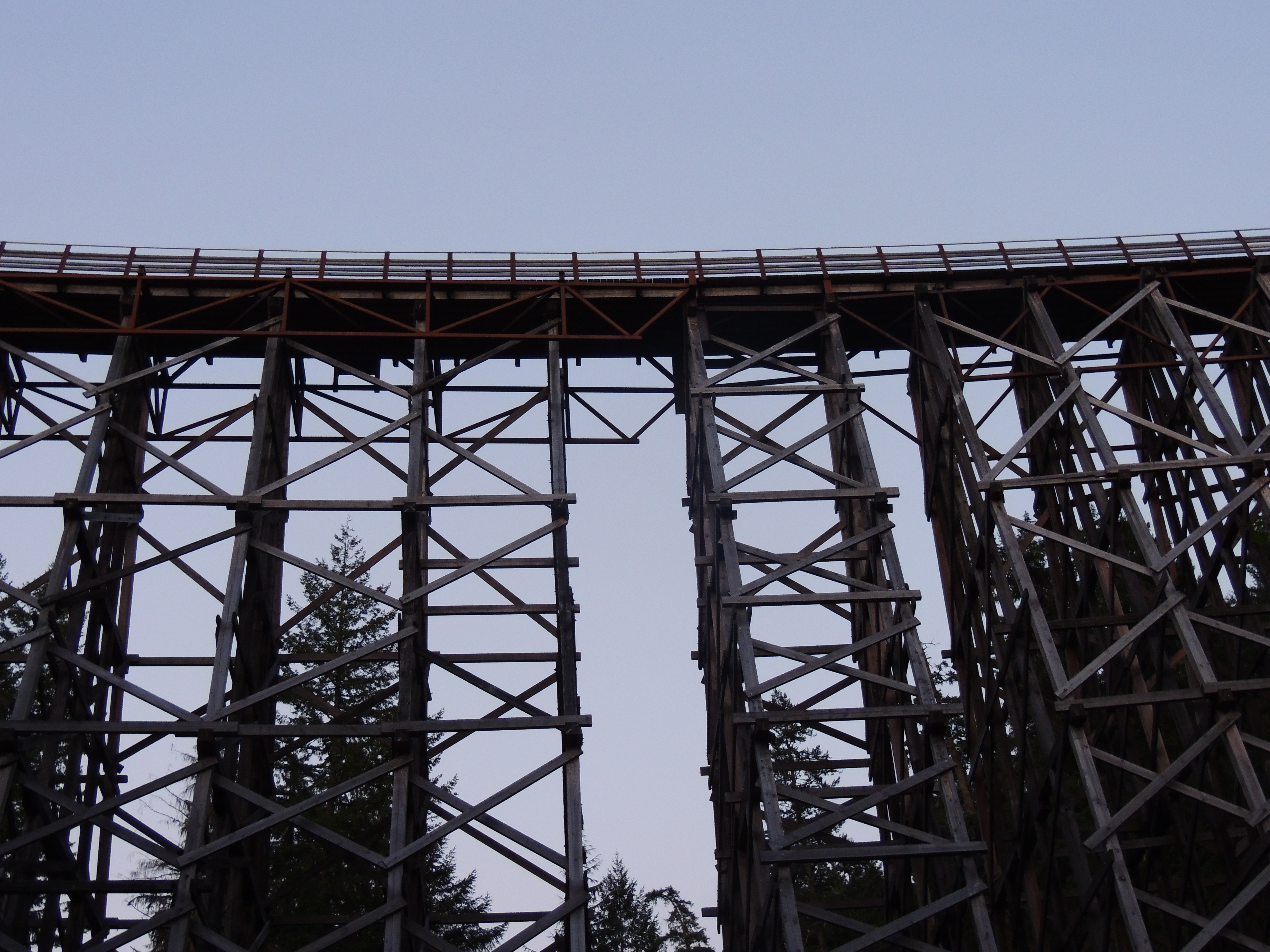 The Kinsol rail trestle in Shawnigan Lake, British Columbia